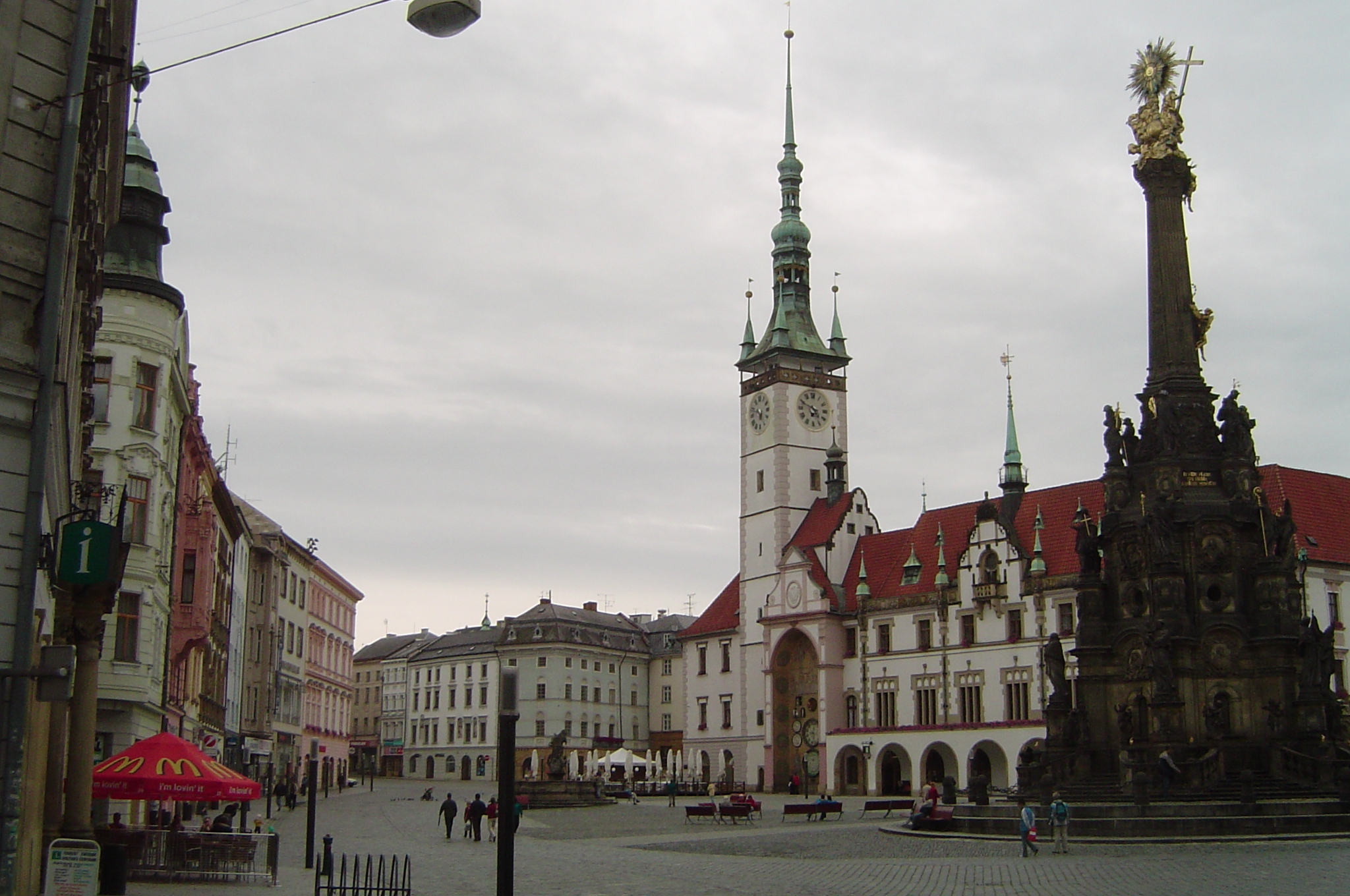 Central square of Olomouc, with town hall, astronomical clock and baroque fountain.